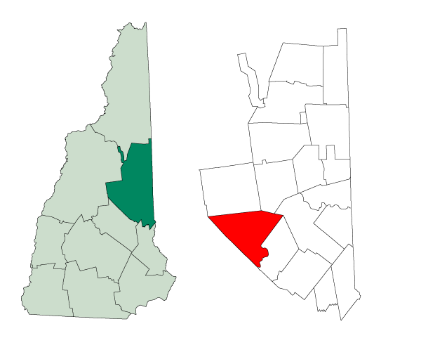 Created from Boundary/Border Outline Files of the Libre Map Project which held a BY-SA creative commons license. Data origionally from 2000 US Census boundary data.